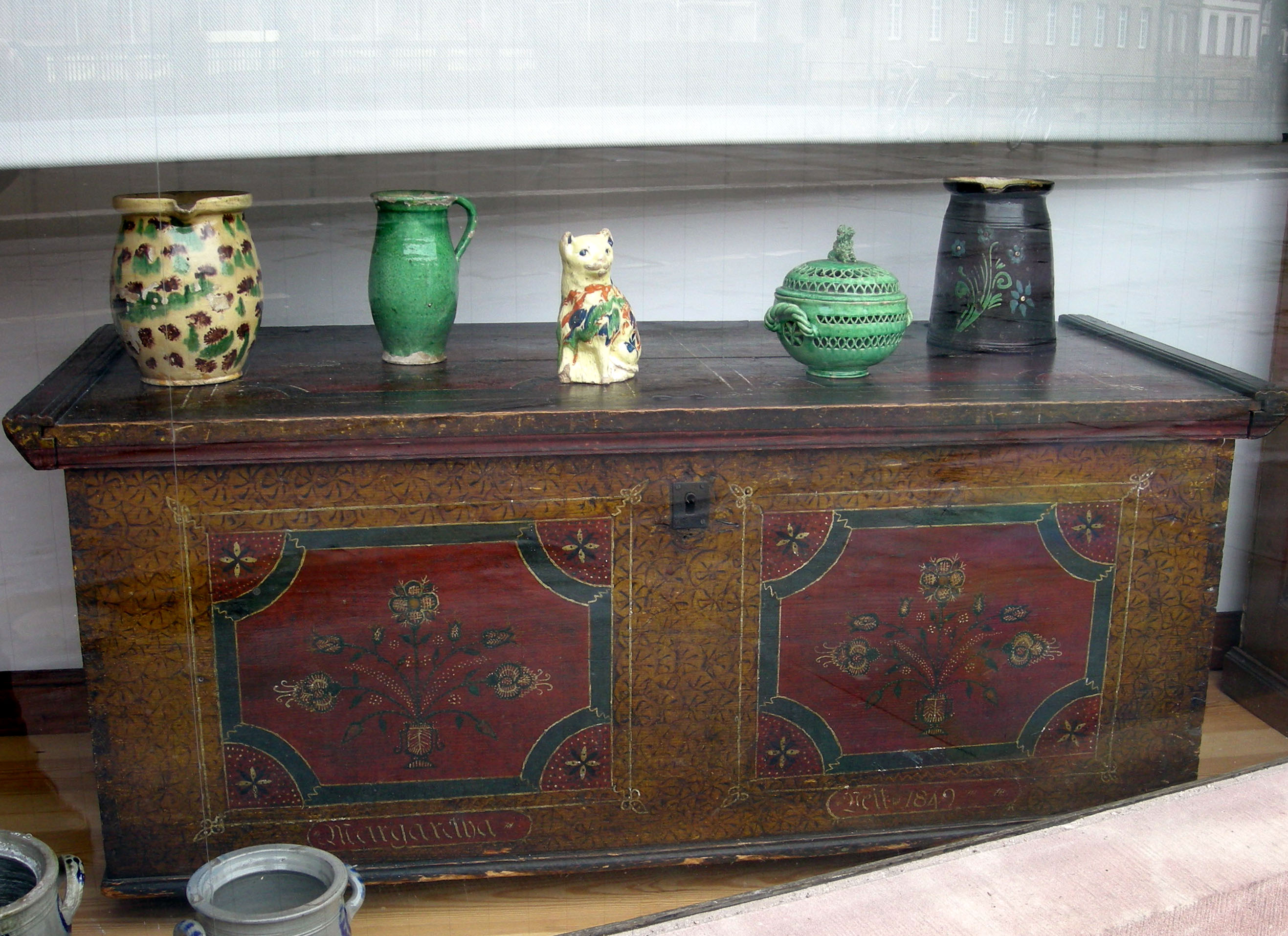 Painted furniture and pottery at Musée alsacien (Strasbourg)